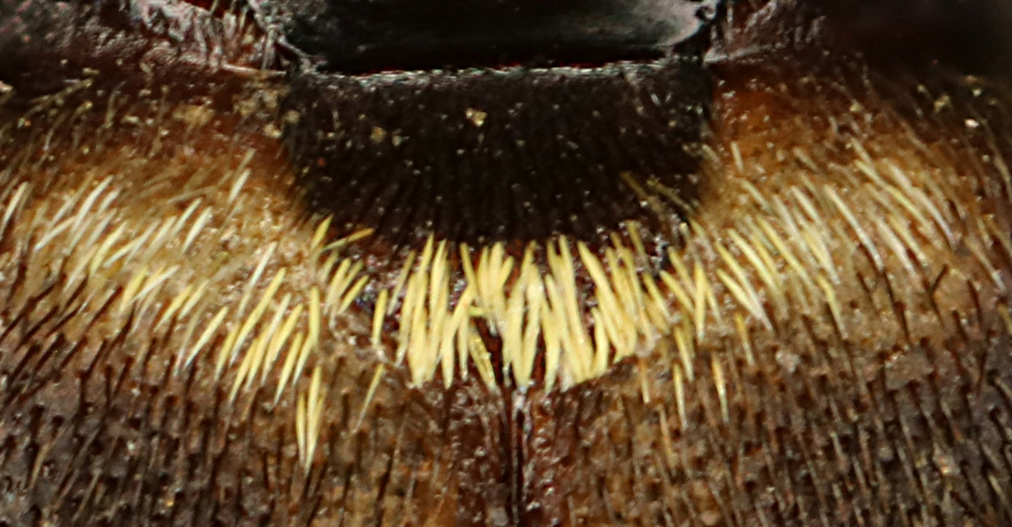 Scutellum of Xylotrechus antilope